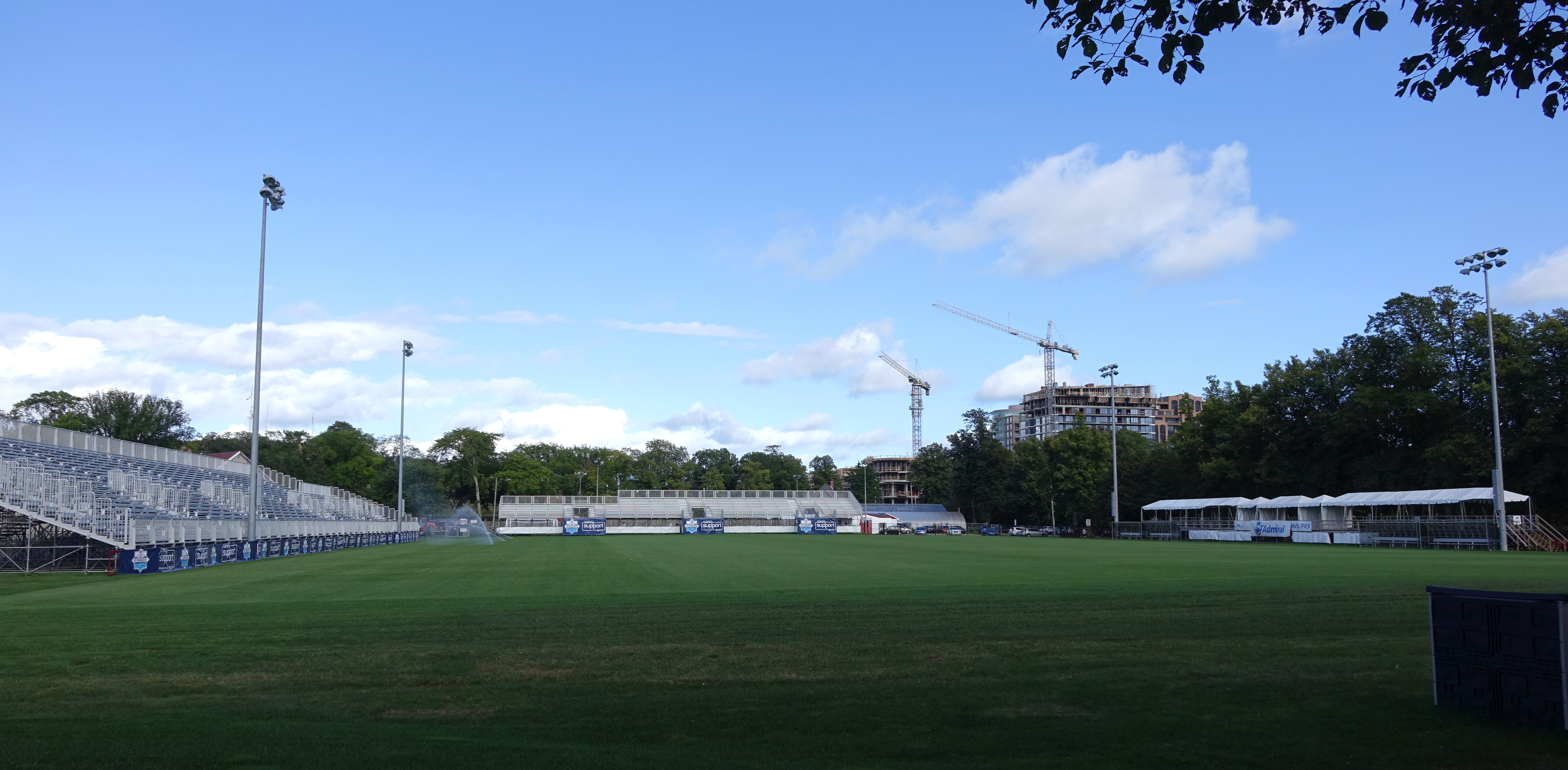 Full Album - Wanderers Grounds, Halifax Wanderers Grounds, Halifax, Nova Scotia, Canada. September 1, 2018.